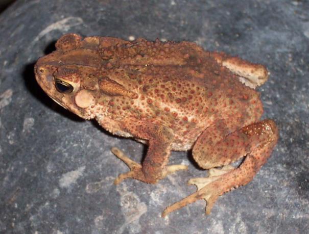 Bufo biporcatus from Darmaga, Bogor, West Java, Indonesia